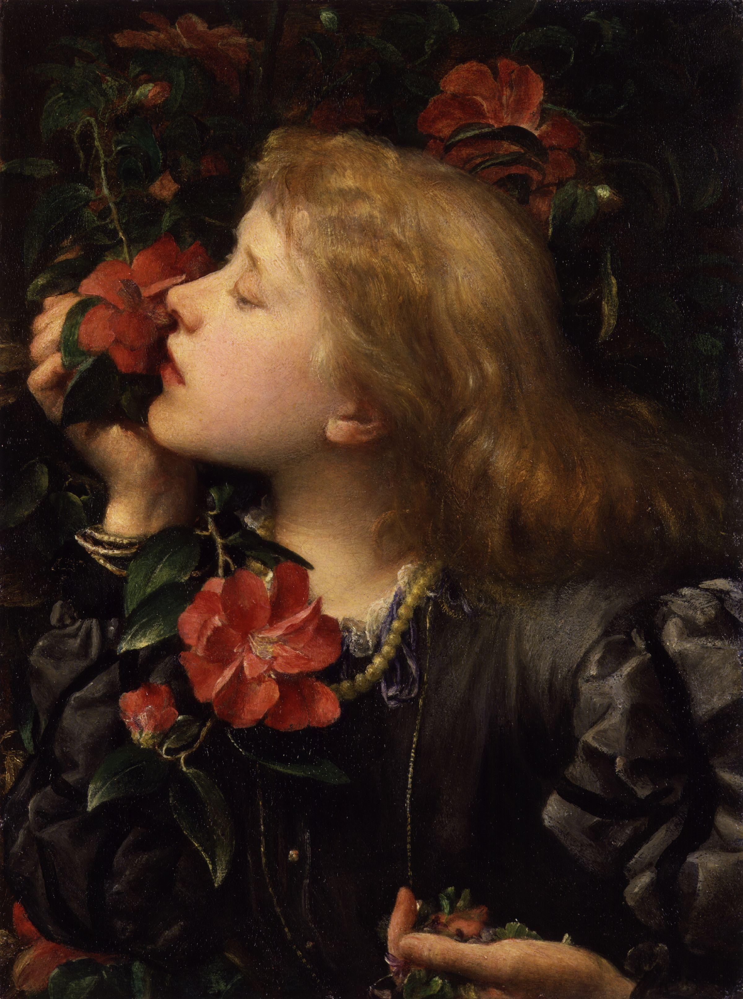 Dame (Alice) Ellen Terry ('Choosing'), by George Frederic Watts (died 1904). The subject is (Alice) Ellen Terry (1847-1928). From Ellen Terry: In London, during an engagement at the Haymarket Theatre, Terry and her sister Kate had their portraits painted by the eminent artist George Frederick Watts, and he soon proposed marriage. Watts's famous portraits of Terry include "Choosing," in which Terry must select between earthly vanities, symbolised by showy, but scent-less camellias and nobler values symbolised by humble-looking, but fragrant violets. Other famous portraits include "Ophelia" and, together with her sister Kate, "The Sisters." Terry was impressed with the art and elegance of his lifestyle and wished to please her parents by making an advantageous marriage. They married on 20 February 1864, shortly before her 17th birthday, when Watts was 46. During her marriage to Watts, she was uncomfortable in the role of child bride. Terry and Watts were separated after only ten months of marriage, during which she took a break from the stage, returning by 1866. All images in this batch have been confirmed as author died before 1939 according to the official death date listed by the NPG.